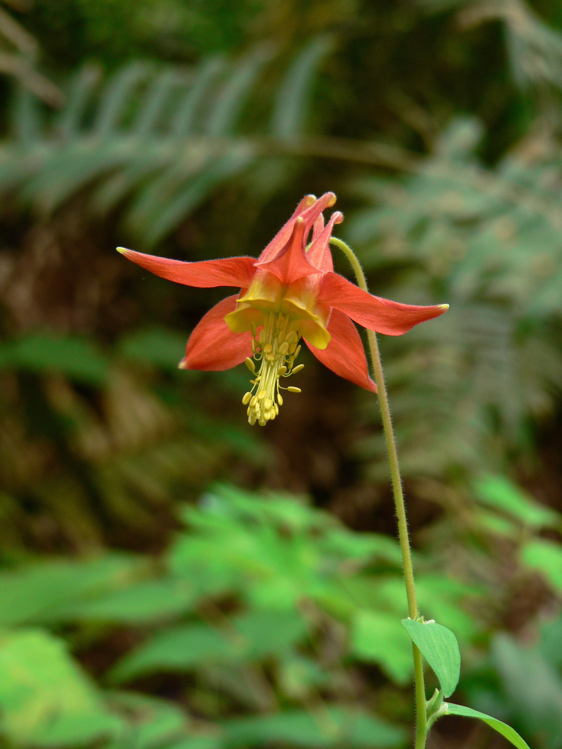 Crimson Columbine or Western Columbine.